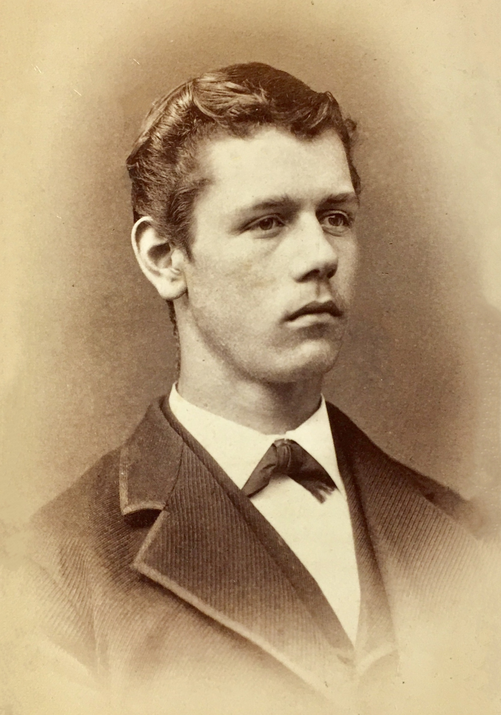 Photograph of Irving Kane Pond July 18, 1876